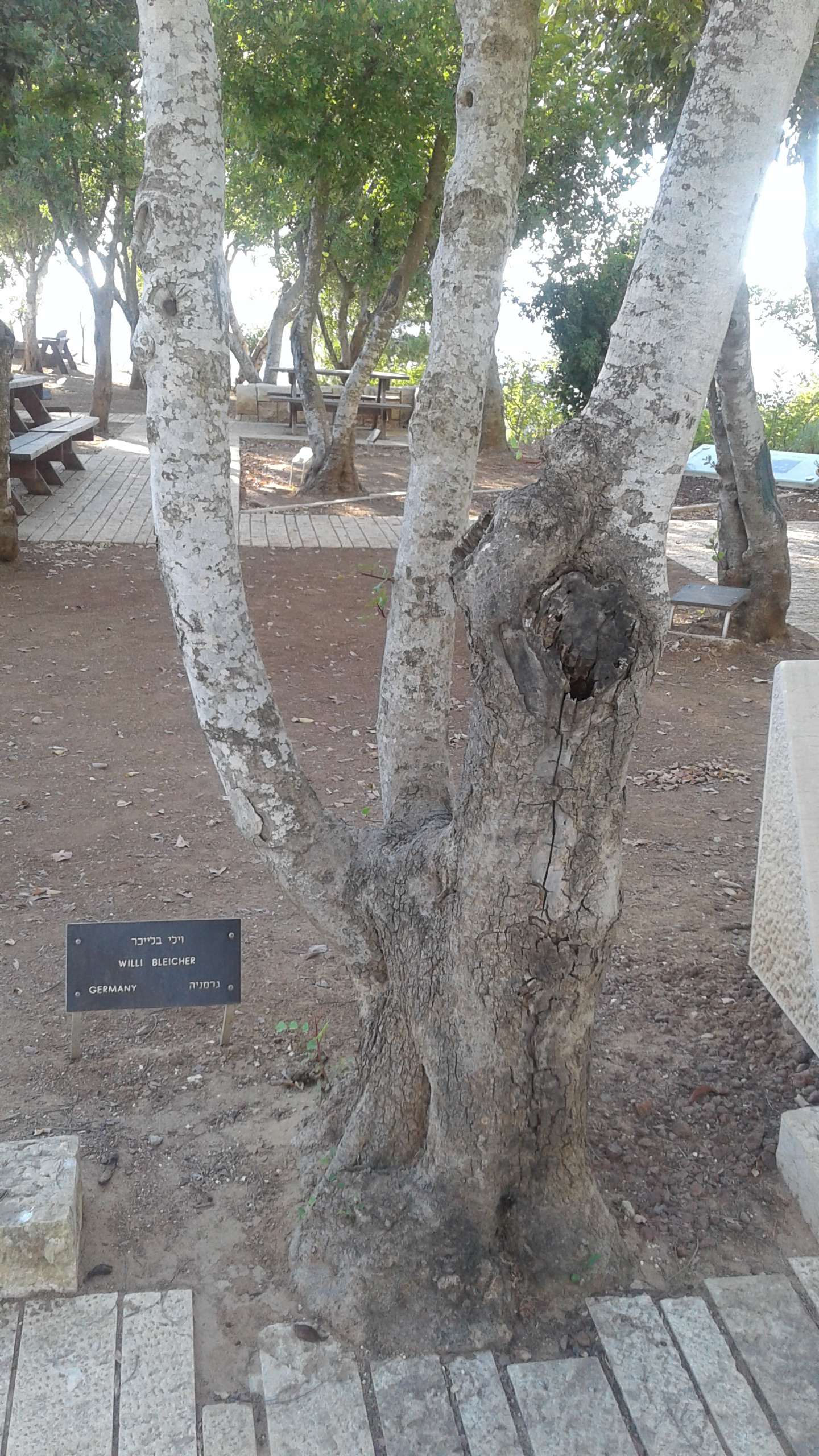 Tree planted in memory of Righteous among the Nations Willi Bleicher at Yad Vashem